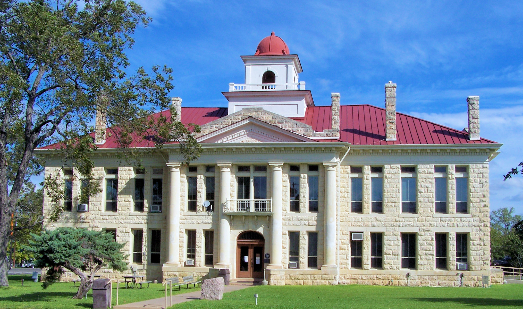 The Blanco County Courthouse located in Johnson City, Texas, United States. The classical revival limestone structure, was built in 1916. The courthouse was designated a Recorded Texas Historic Landmark in 1983.